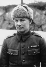 Paavo Paajanen, Knight of the Mannerheim Cross #101